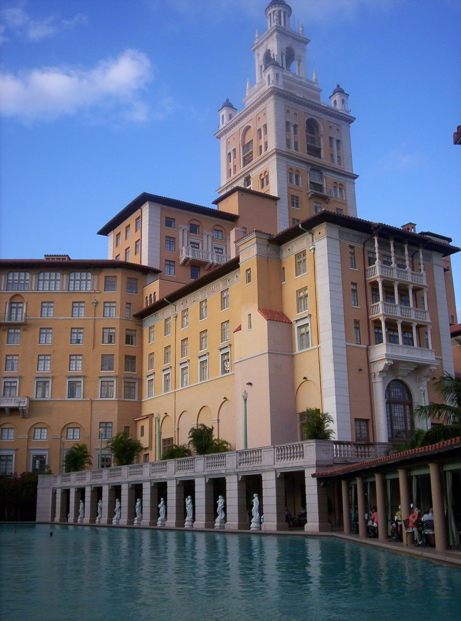 Digital photo taken by Marc Averette. Biltmore Hotel Coral Gables pool. Taken 9/10/2006